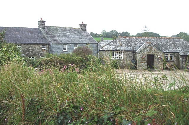 Mornick. A view over the hedge of some of the buildings that make up the locality of Mornick. The lanes of this hamlet look a little strange on the map as two of them peter out, though the one that this photo was taken from actually continues as an unfenced, unmetalled track to Stockaton. (see 534076)